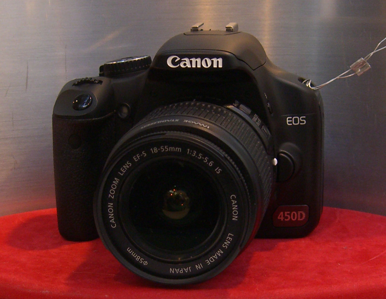 Front view of Canon EOS 450D digital SLR camera with Canon ES-F 18–55mm f/3.5–5.6 IS kit lens. Cropped version of Image:Canon EOS 450D.jpg.